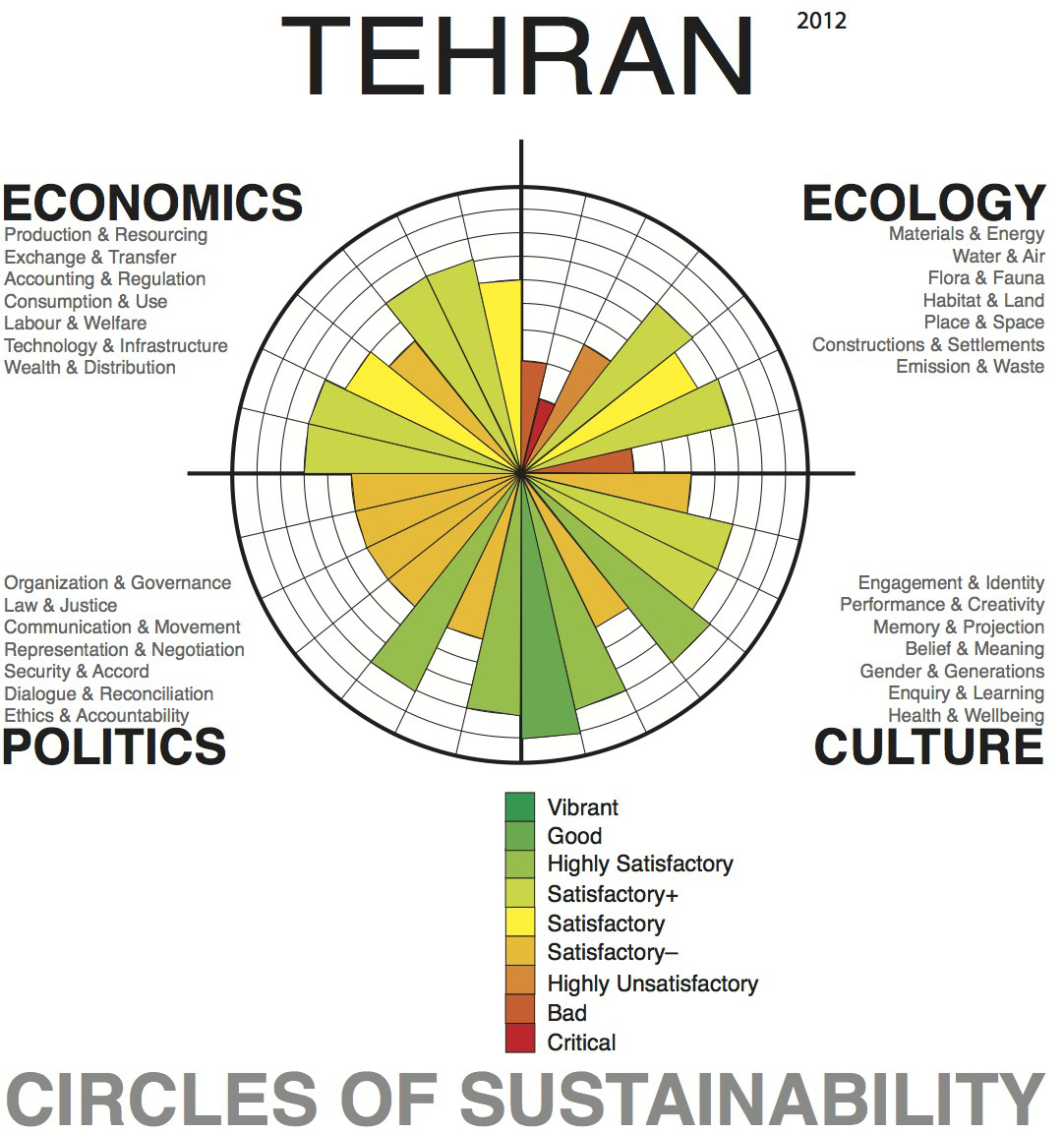 Urban sustainability analysis of the greater urban area of the city using the 'Circles of Sustainability' method of the UN Global Compact Cities Programme